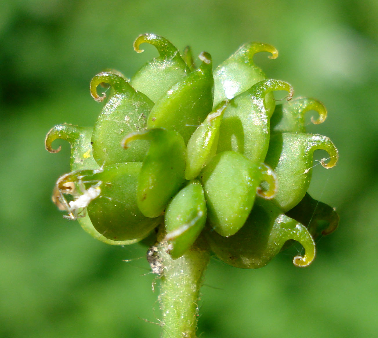 Ranunculus lanuginosus (fruit) (Unterfranken, Germany)